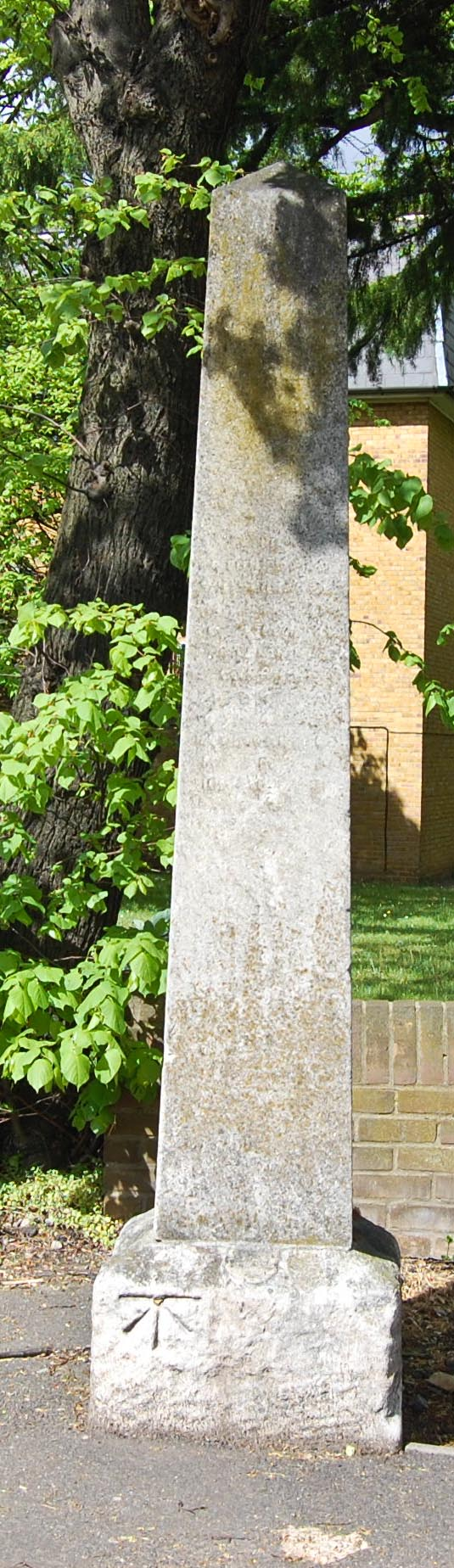 The stone of Leytonstone? London E11